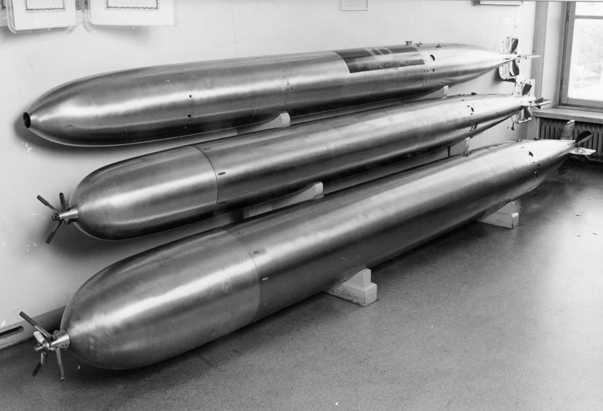 Three Schwartzkopff-built 45 cm torpedoes of the Swedish Navy. They were acquired in 1906 and labeled "M/06 S". CC-BY-SA to "Sjöhistoriska museet".